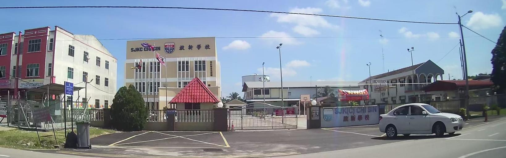 SJK (C) Chi Sin